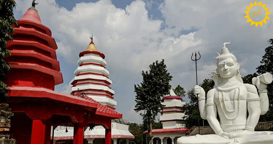 Ariel View of Parasmaninath Temple